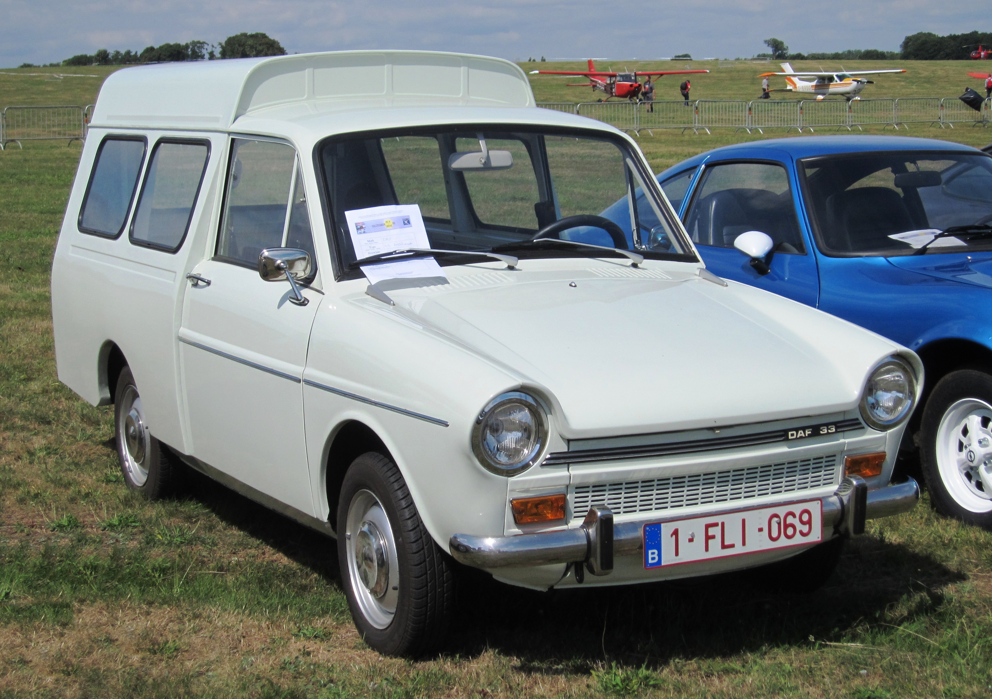 DAF 33 Kombi